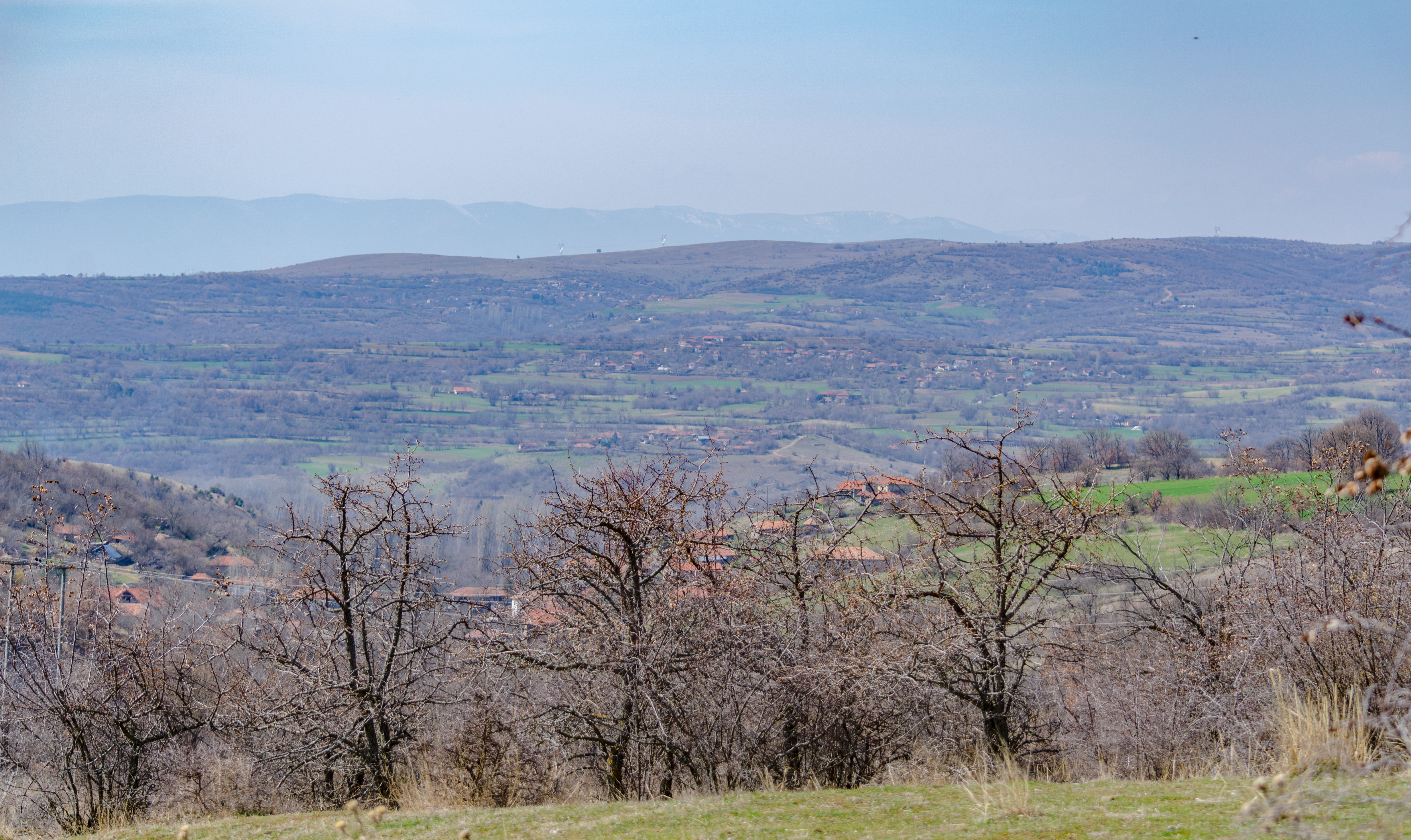 View of the village Puzajka, and in the background is the village Čelopek